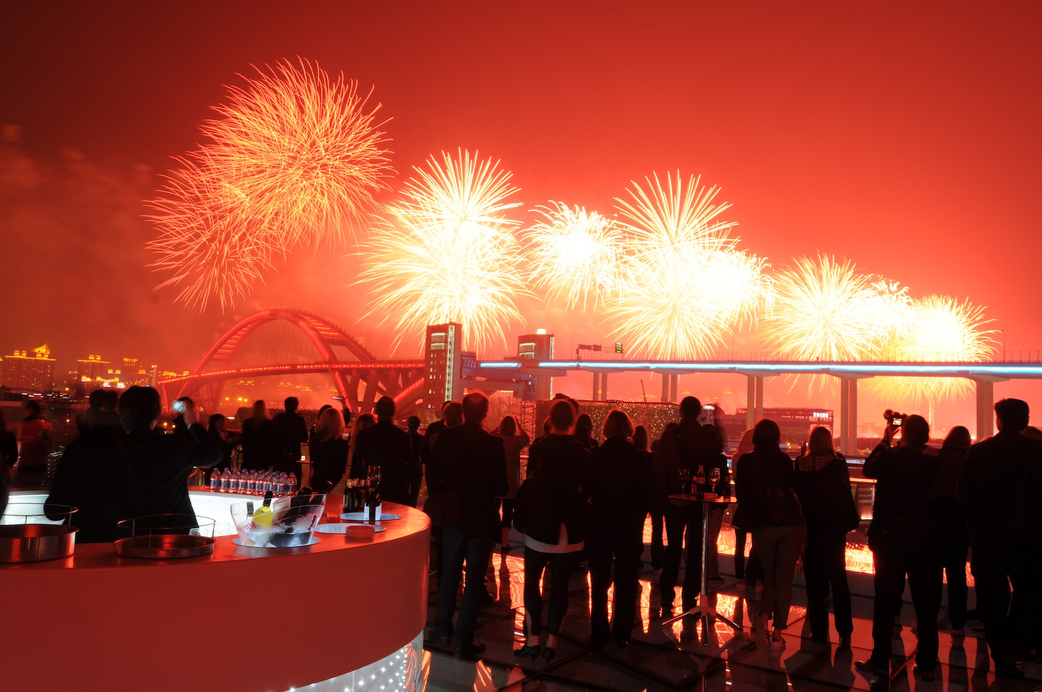 Expo's opening-night fireworks light up the Shanghai skyline on the evening of April 20, 2010. These photographs are taken from the rooftop bar on the Swedish pavilion. By Stefan Geens